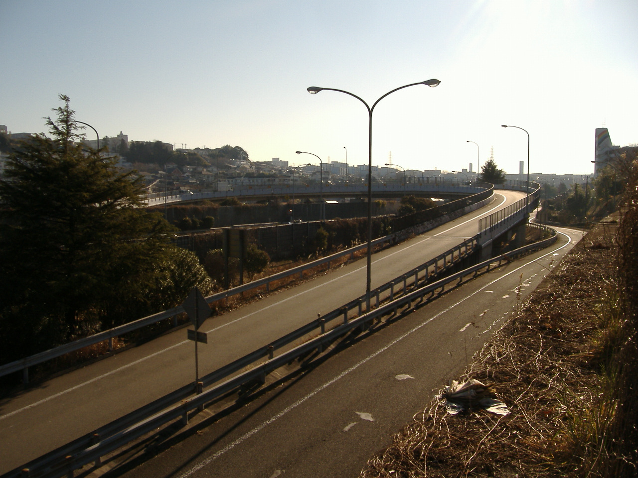 Hino Interchange in Yokohama City, Japan